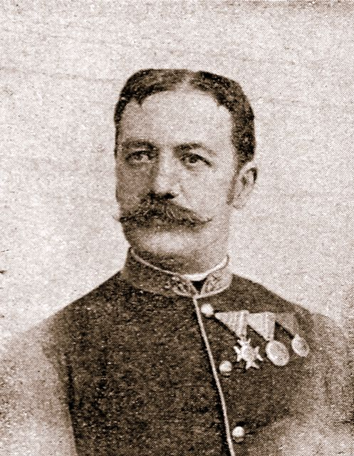 Drawing of Karl Michael Ziehrer (1843-1922) in his earlier years.